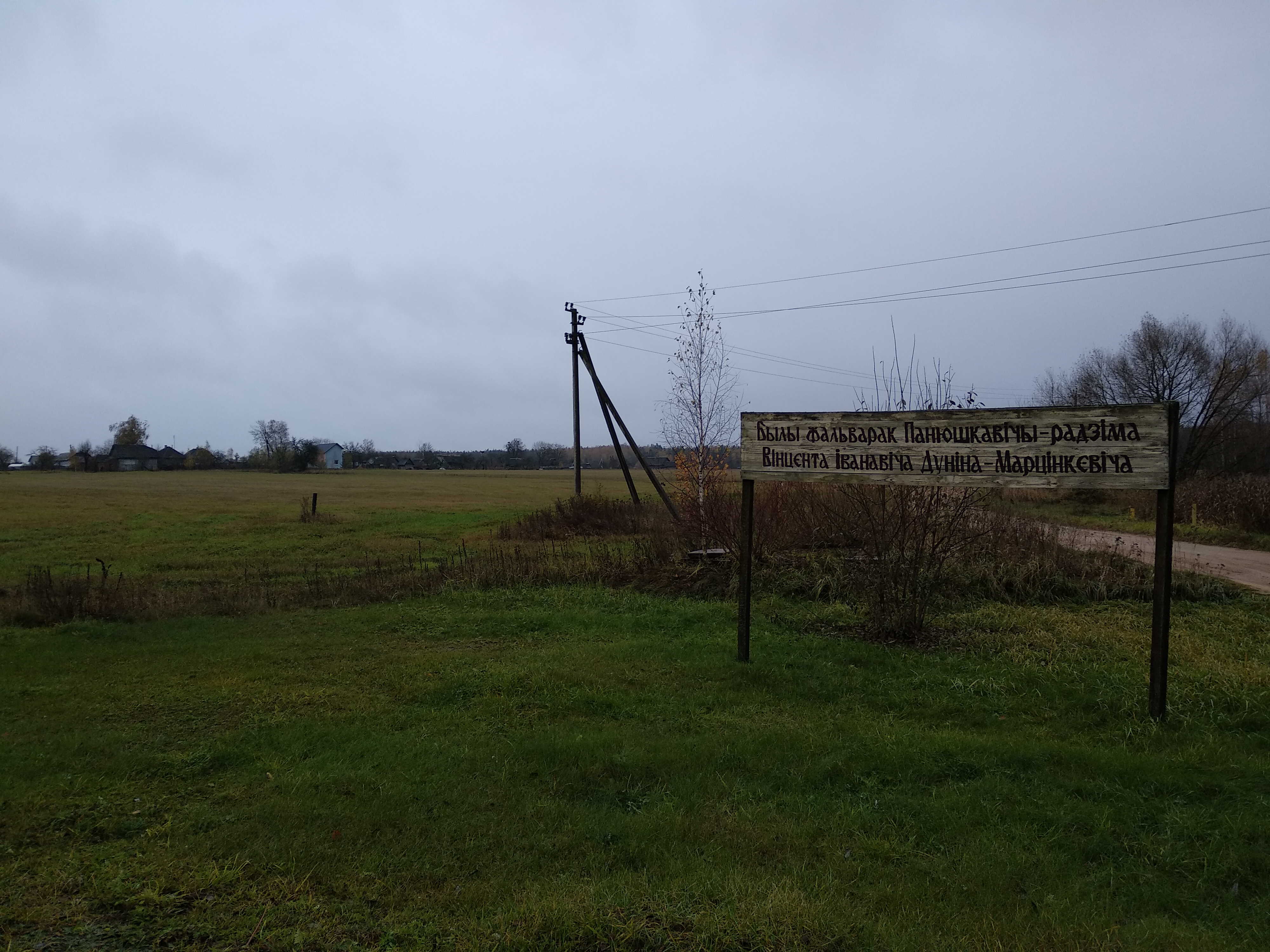 birthplace of Vintsent Dunin-Martsinkyevich